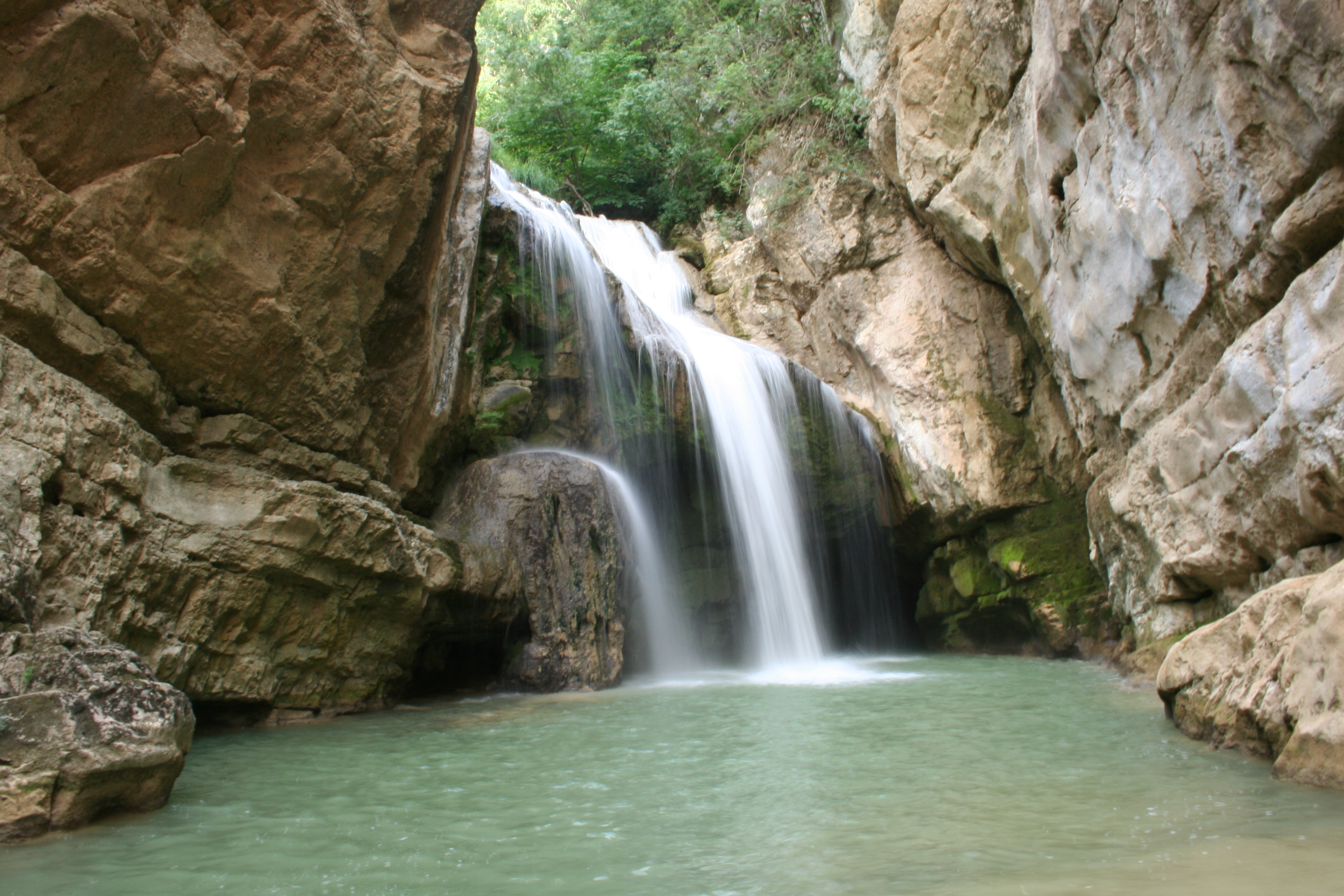 The First Waterfall in Mirusha Canyon Ujevara e pare e Kanjonit te Mirushes